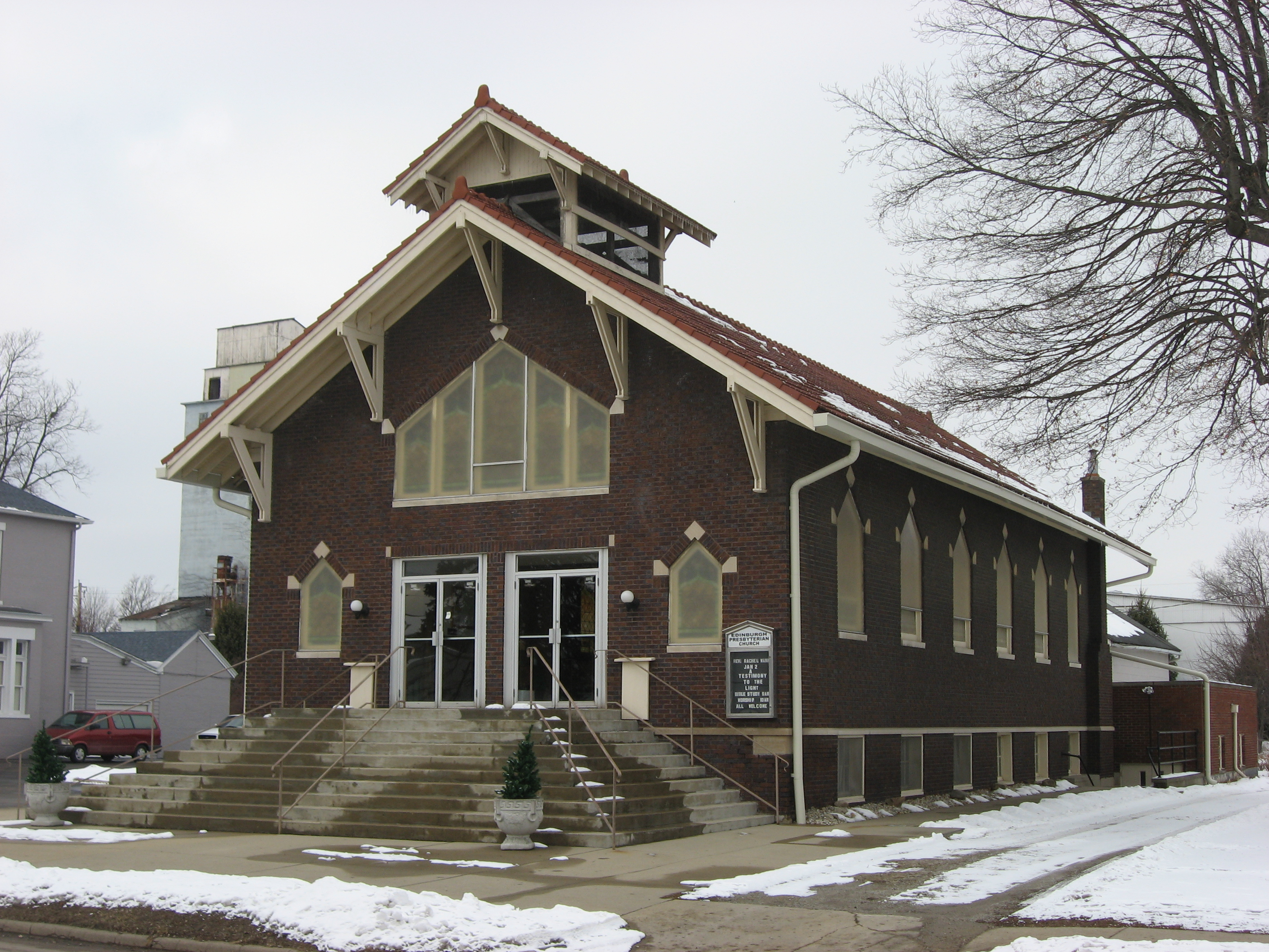 Front of the Edinburgh Presbyterian Church, located at 306 E. Main Cross Street in Edinburgh, Indiana, United States. Built in 1916, it is part of the Toner Historic District, a historic district that may be listed on the National Register of Historic Places.